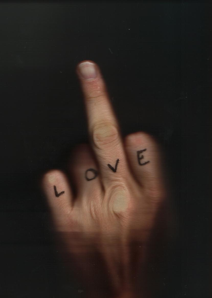 Hypocrite "Love" message. Allegory of hypocrisy.